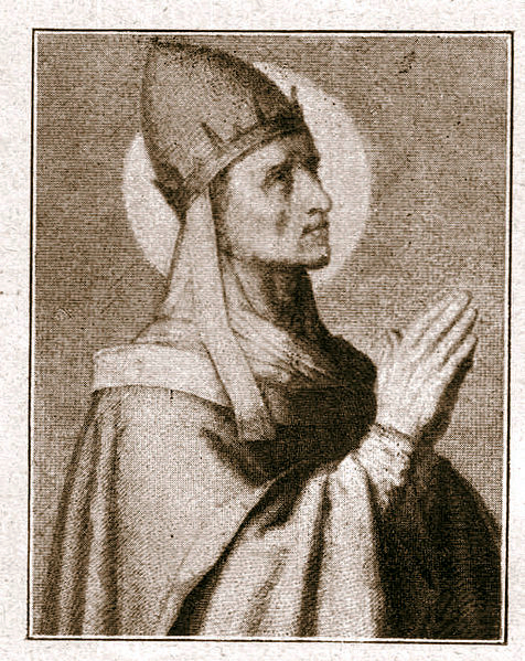 picture of Pope Silvester I